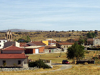 General view of San Esteban de los Patos.